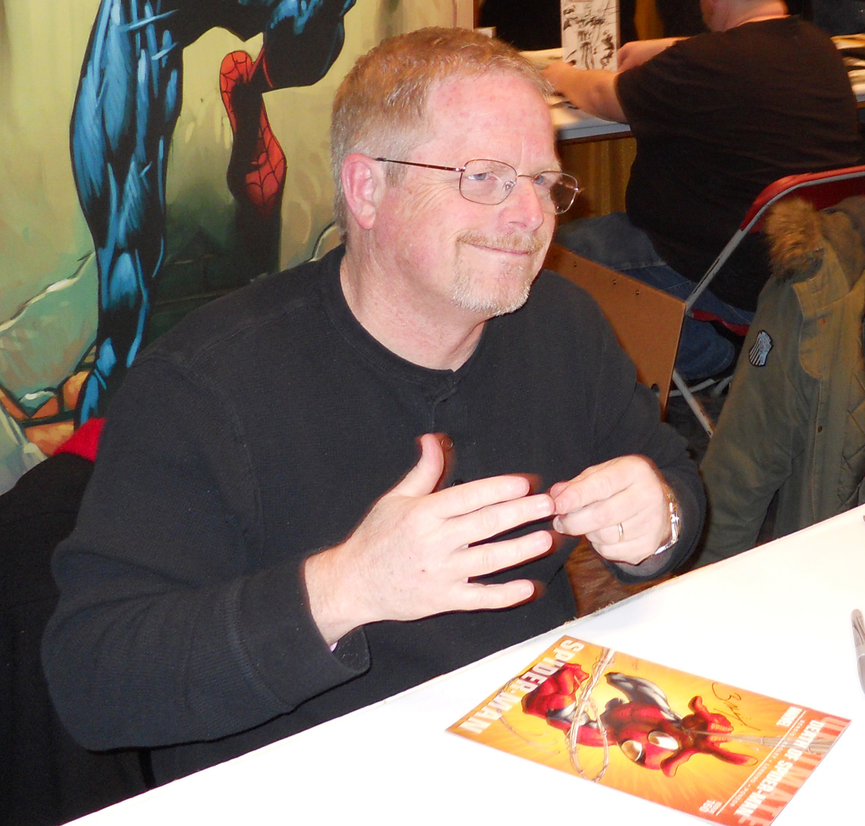 Comics artist Mark Bagley signing autographs at Toronto Comic Con in March 2012 at Metro Toronto Convention Centre in Canada.